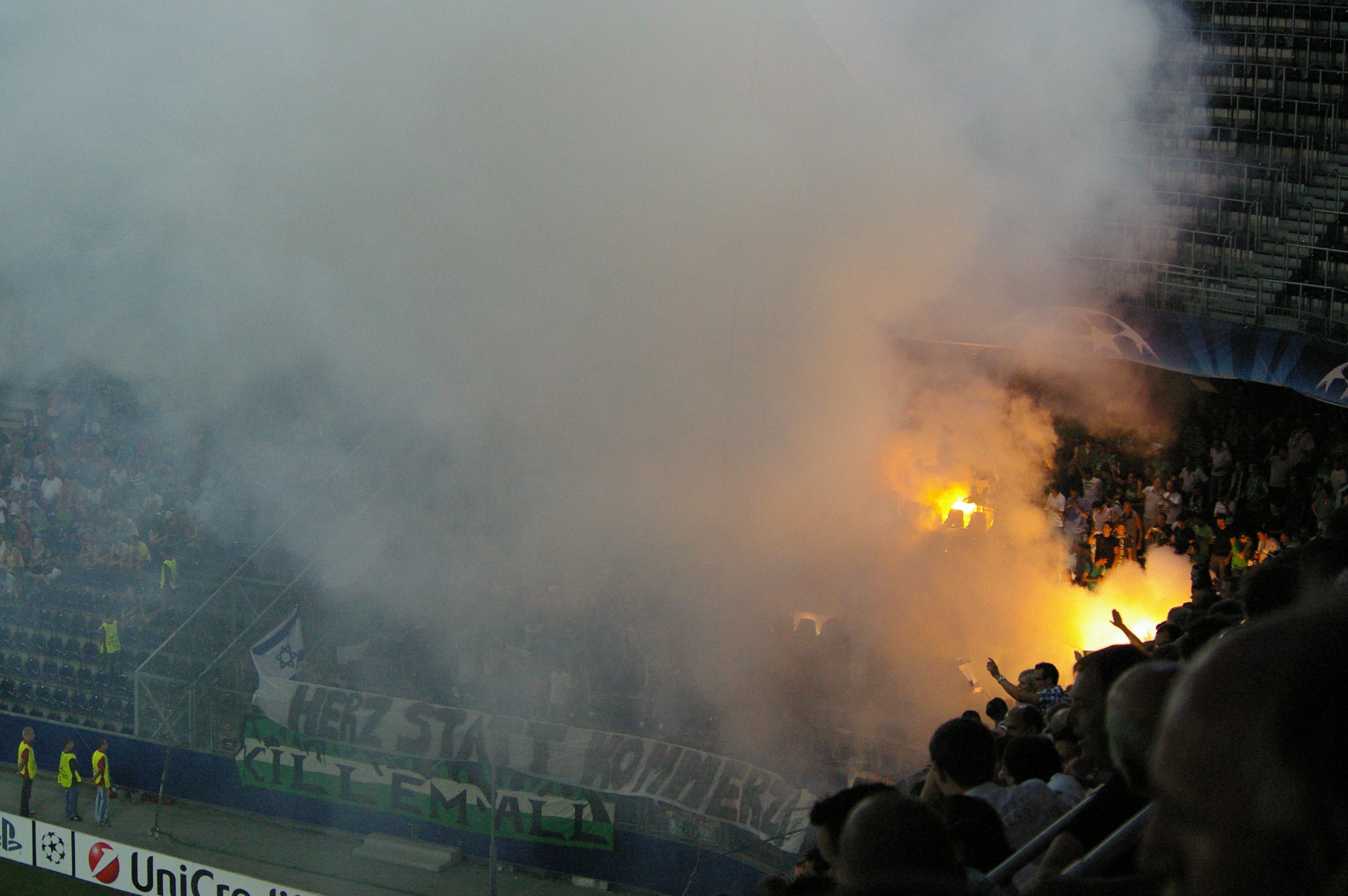 Maccabi Haifa Supporters during the Qualifier vs.FC Salzburg